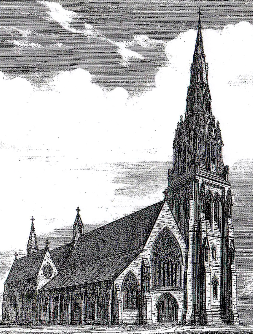 Original design of the Roman Catholic church of St. Peter's in Woolwich, southeast London (then Kent), UK. The spire was never built. Engraving by A.W. Pugin, 1842, in the Orthodox Journal.